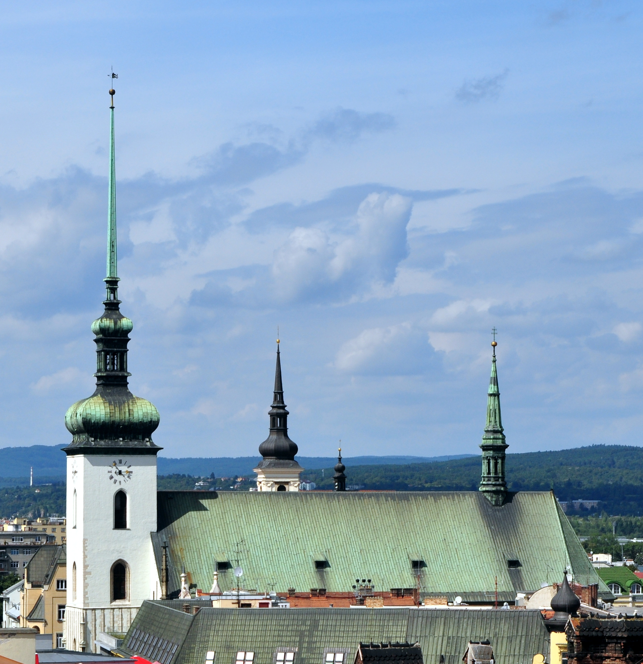 Church of Saint James in Brno